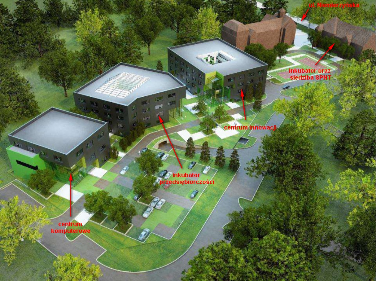 SPNT Pomerania Etap 1